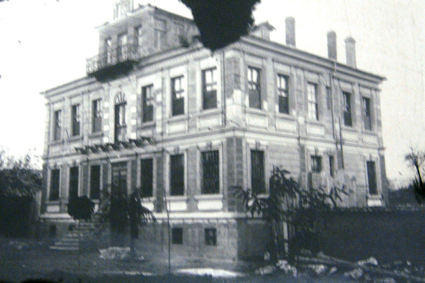 View of the house of Niyazi Bey in Resen 1909 This media file is produced by Wikipedian in Residence in Category:Wikipedian in Residence at DARM in 2016.